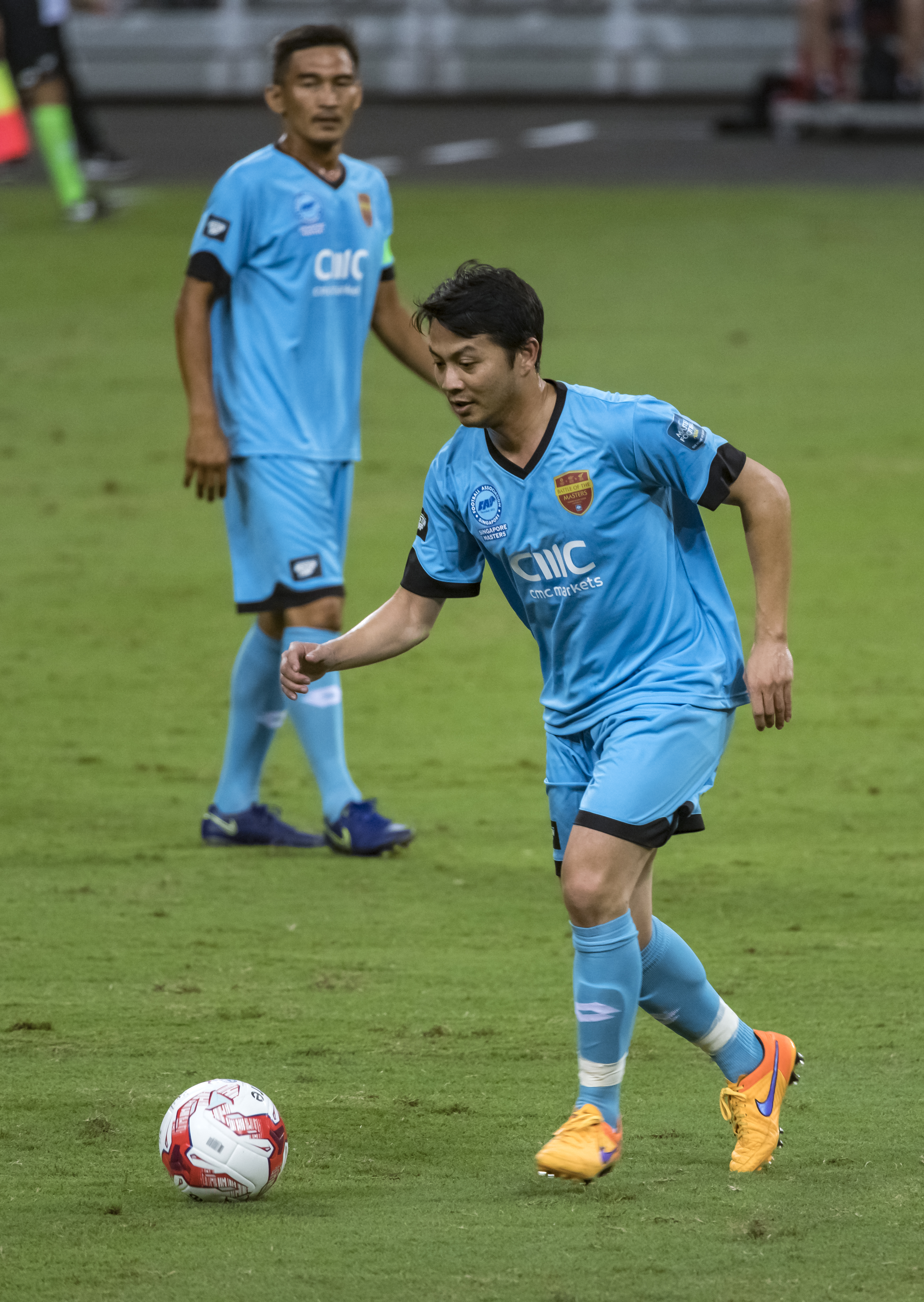 Indra Sahdan Daud masters singapore national stadium 2017